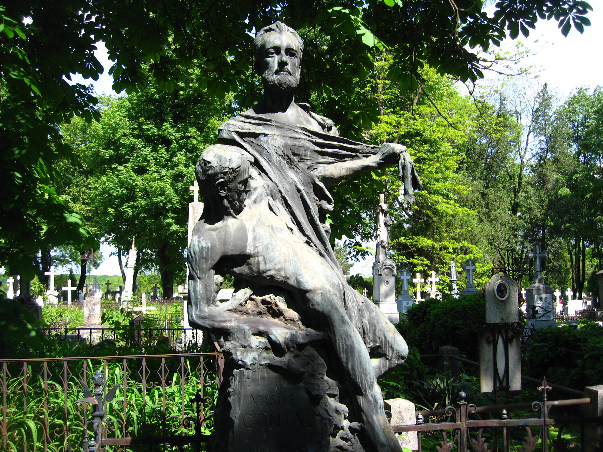 Vasile Conta's grave, Iaşi, Romania